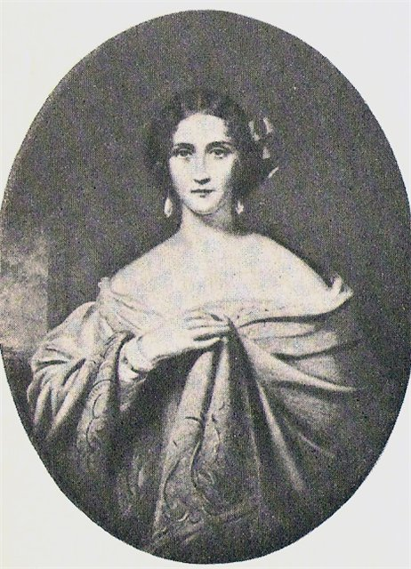 A.Morua - "Disraeli's life", Moscow 1991